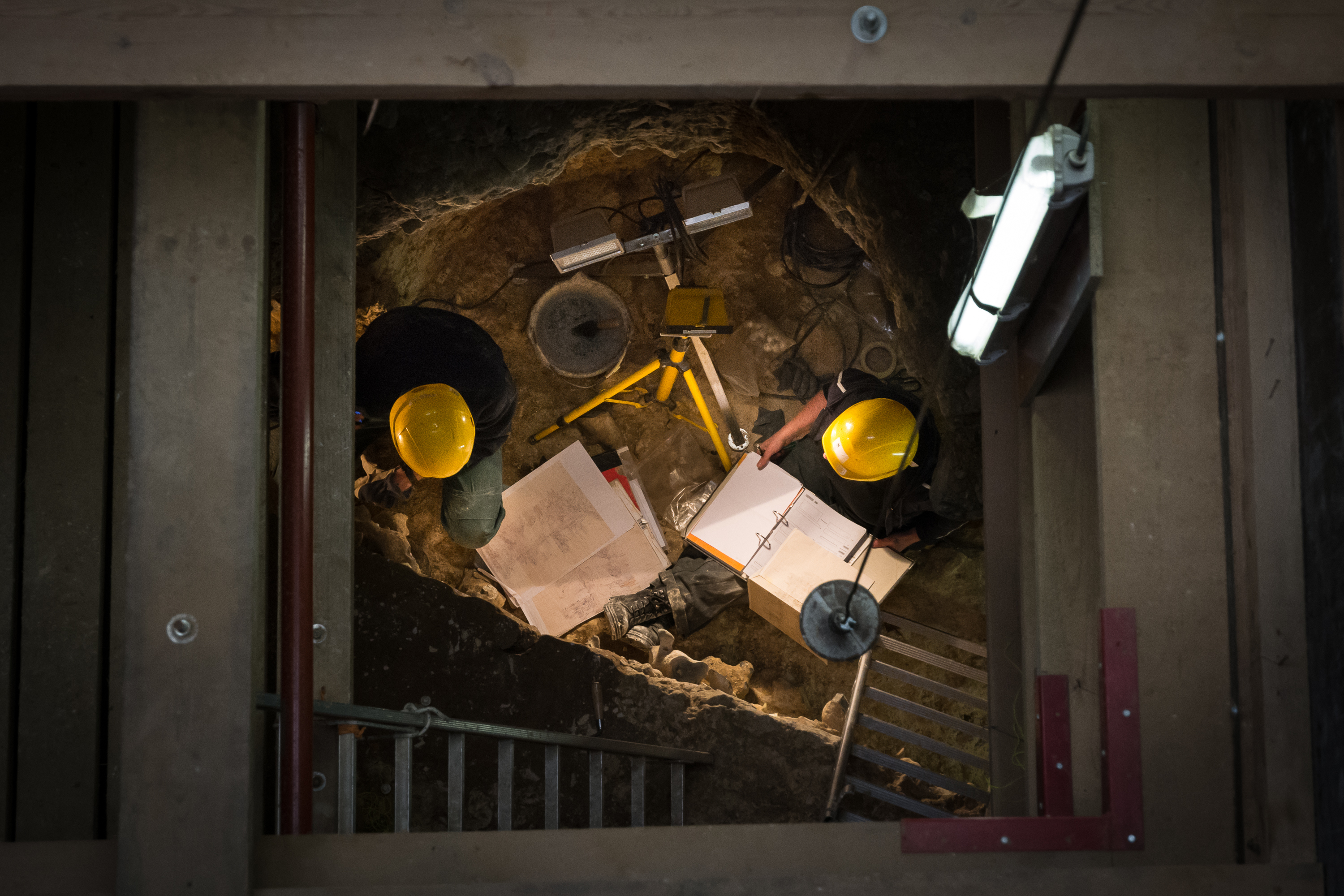 Neolithic Flint Mines at Spiennes